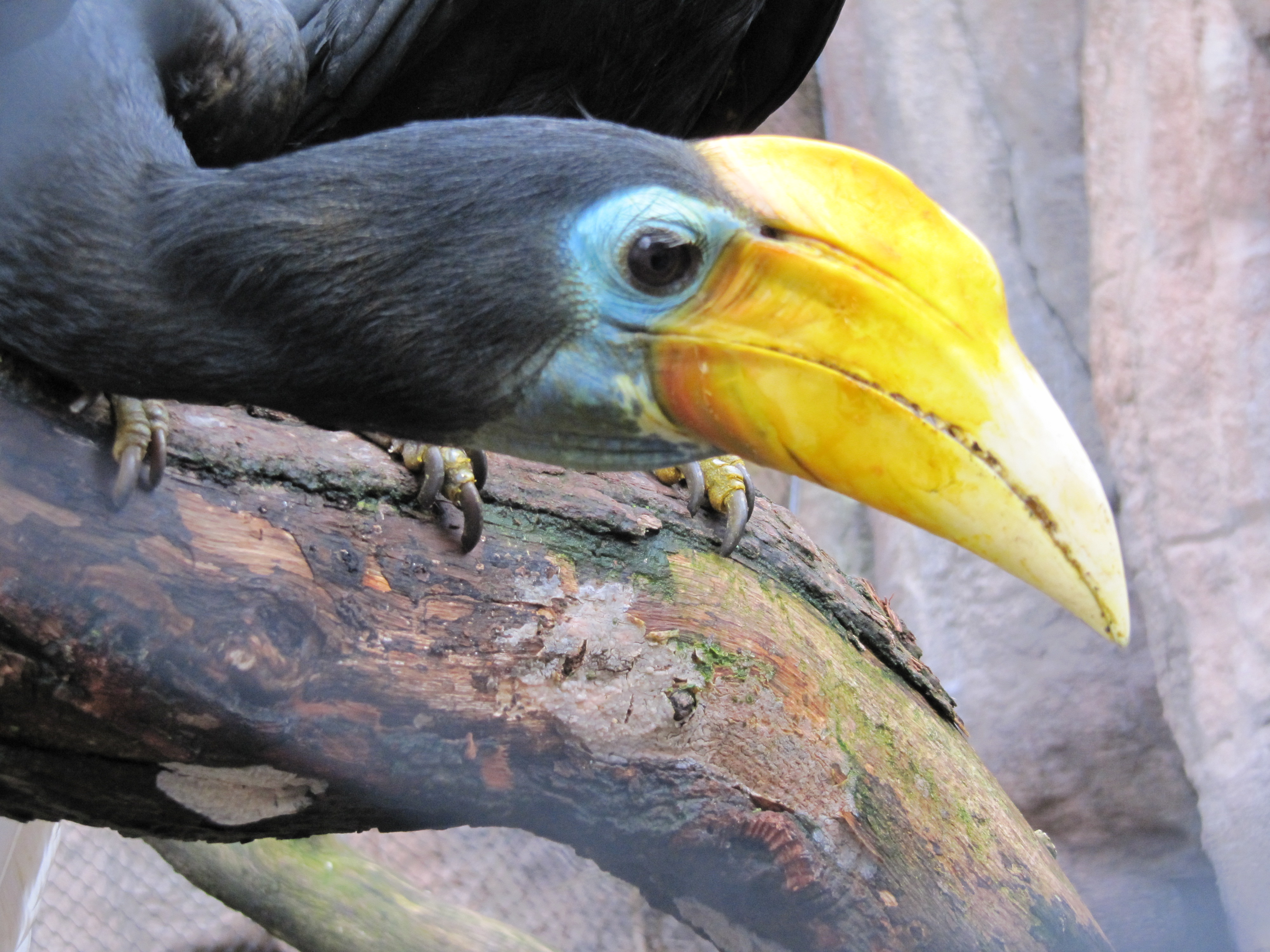 A female Aceros cassidix in Ouwehands Dierenpark